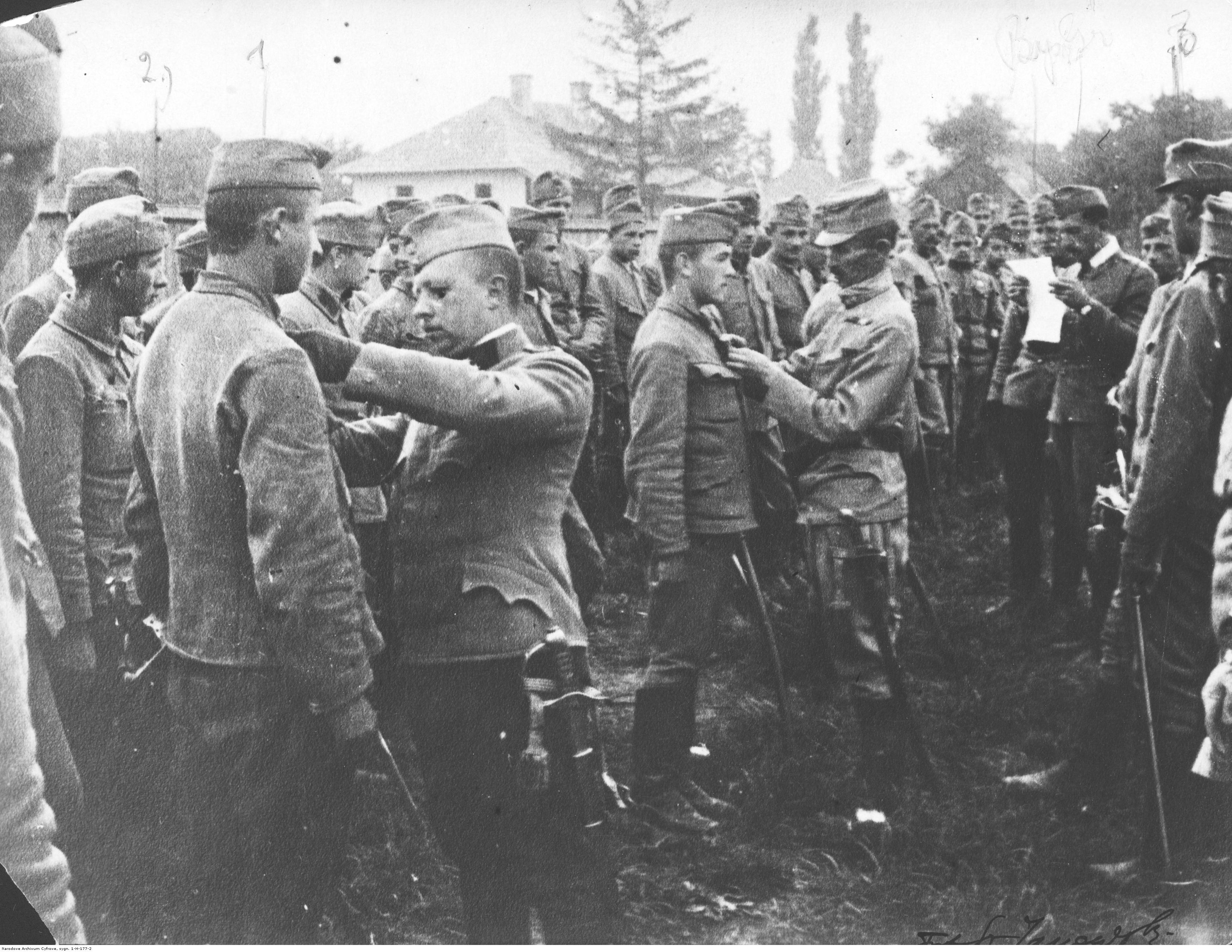 Dekoracja uczestników szarży pod Rokitną